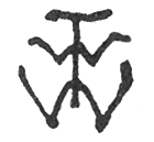 The monogram of T. W. Wood, from Image:Expression of the Emotions Figure 11.png. This monogram appears in many of his drawings.